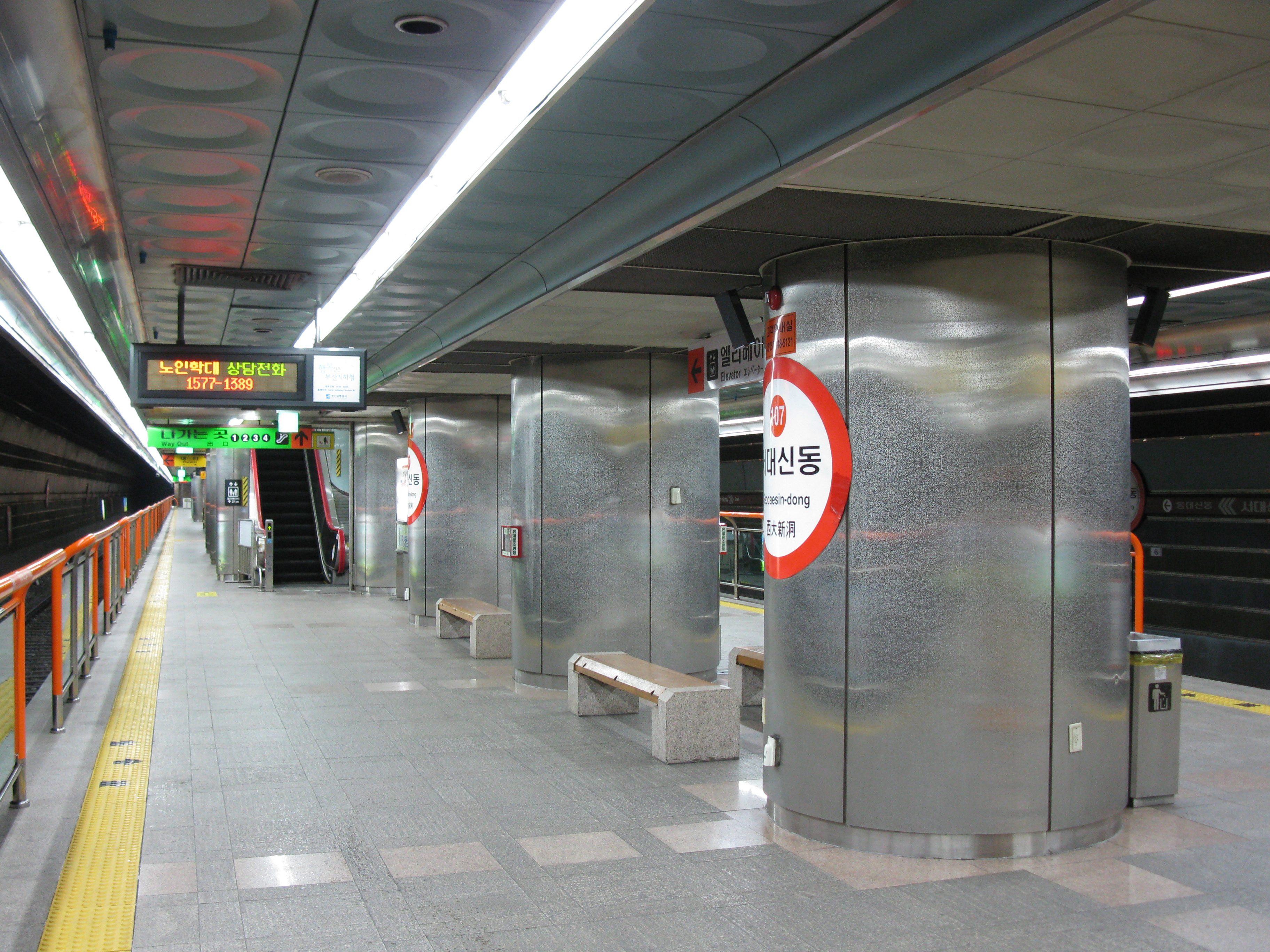 Seodaesin-dong Station platform (Busan Subway Line 1)